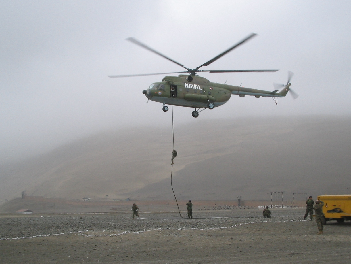 This was probably one of the best experiences I've had this year, in regards to training. Nothing like fast roping out of a helo for about 50 feet.